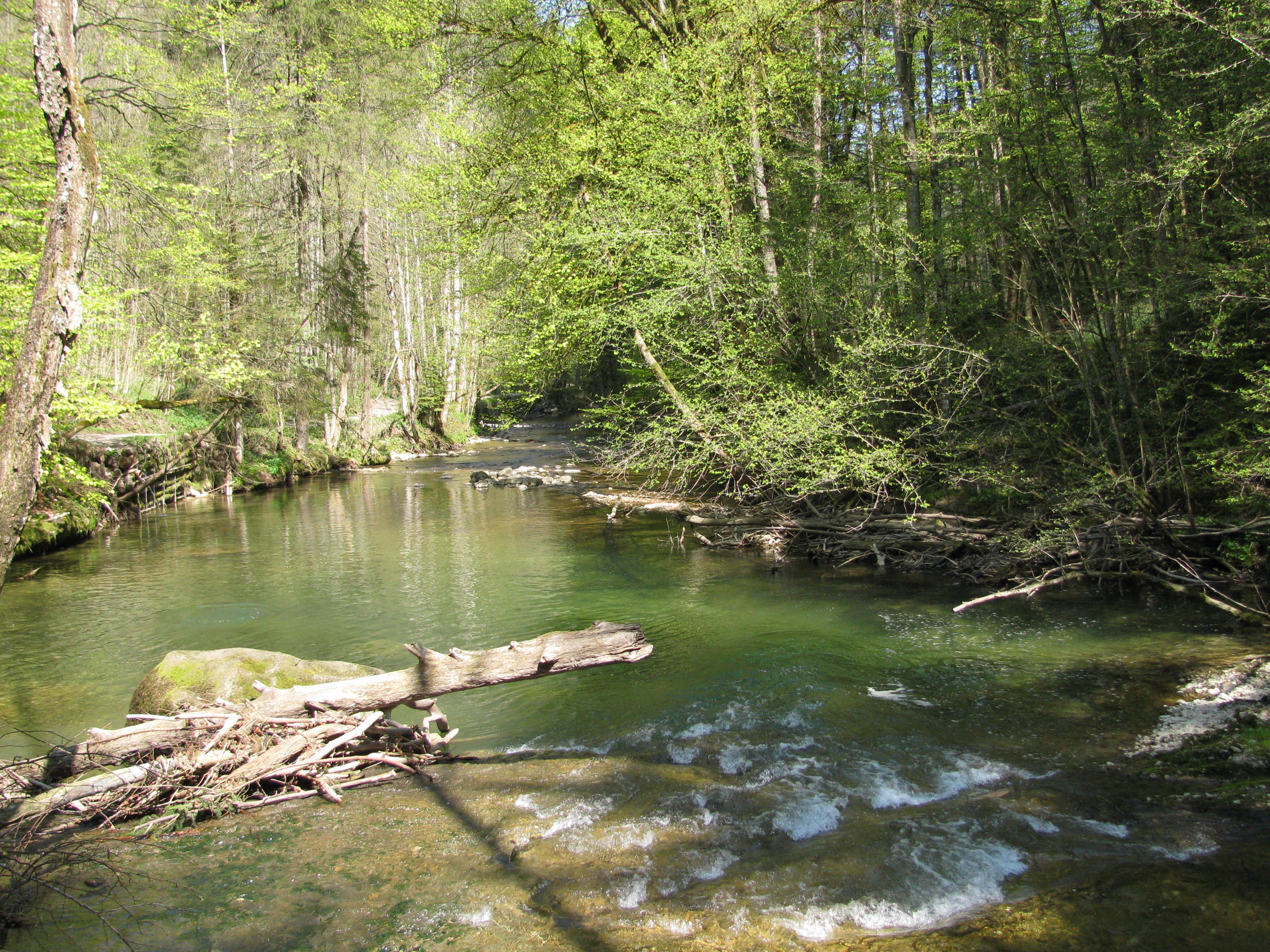 Germany - Bavaria - district Lindau: Obere Argen